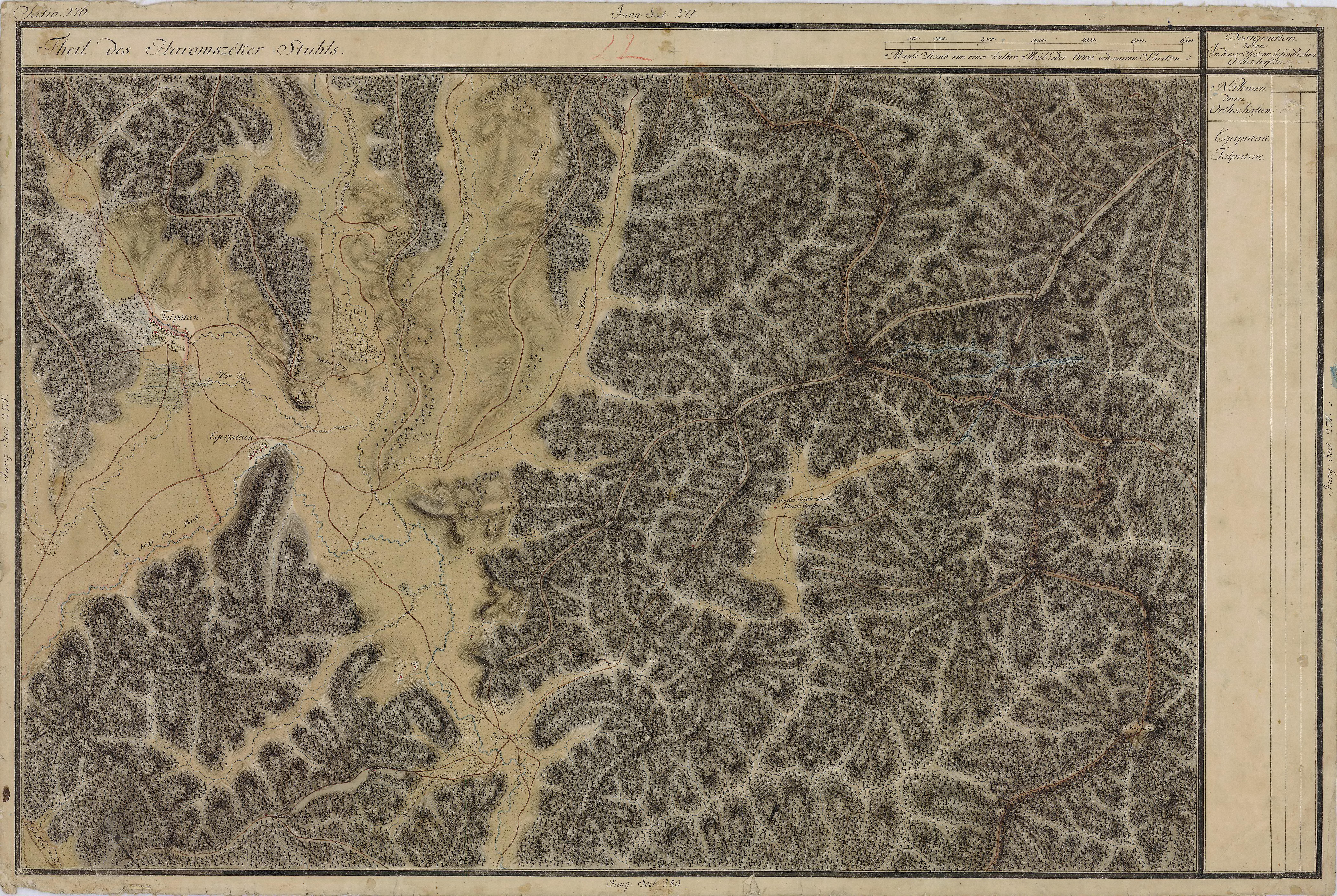 Grand Duchy of Transylvania, 1769-1773. Josephinische Landaufnahme pg.276